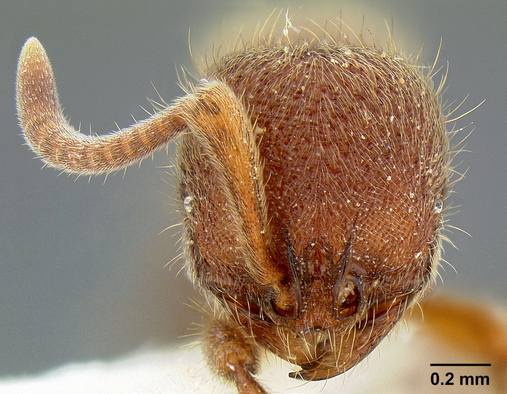 Head view of ant Proceratium stictum specimen casent0106095.